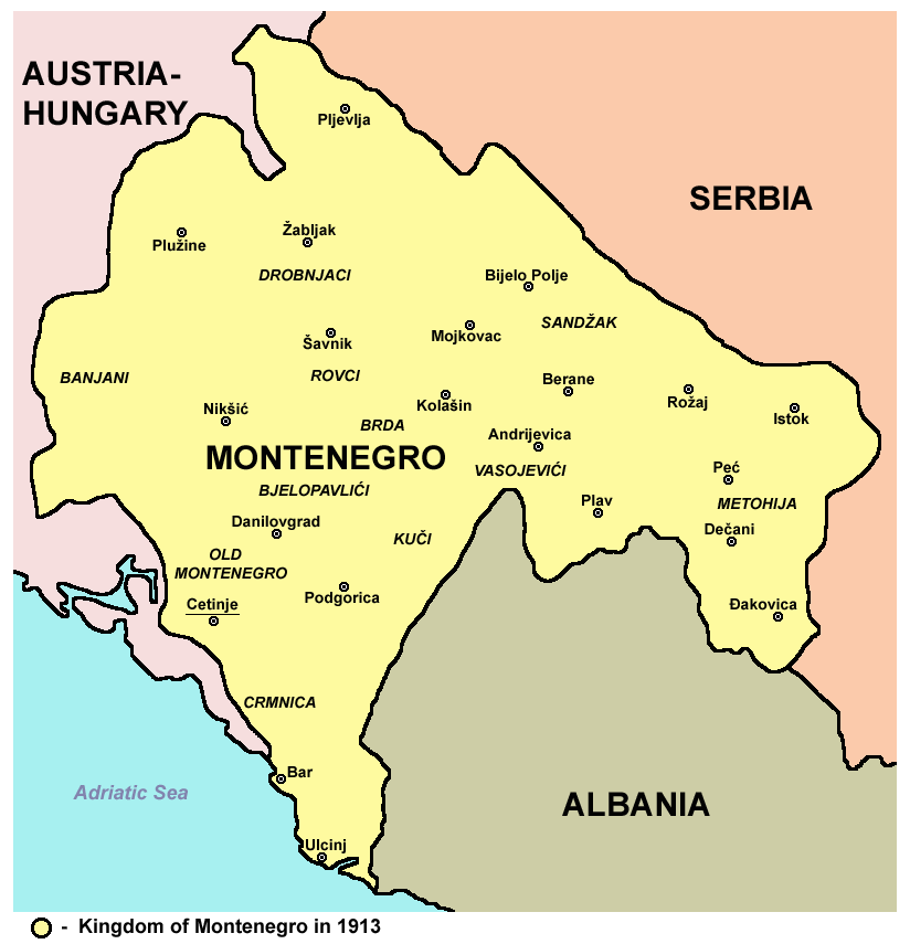 Kingdom of Montenegro in 1913. Crnogorski / Srpski: Kraljevina Crna Gora 1913. godine.